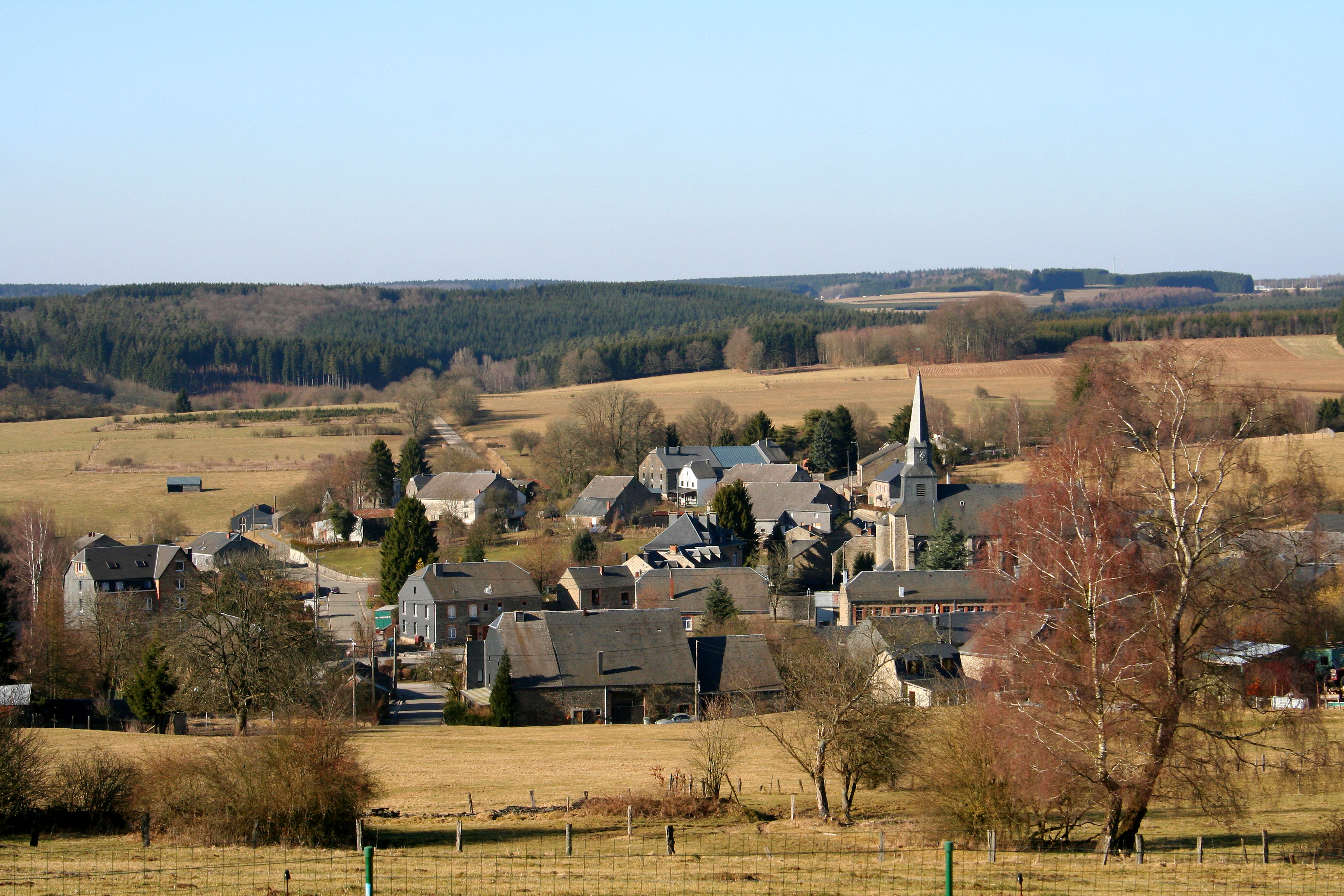 Villance (Belgium), prospect of the village.